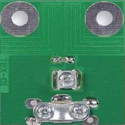 broadband RTV 300Ω/75Ω balun for channels from 1 to 69